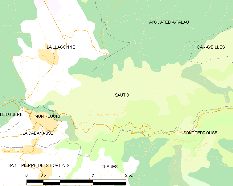 Map of French municipality